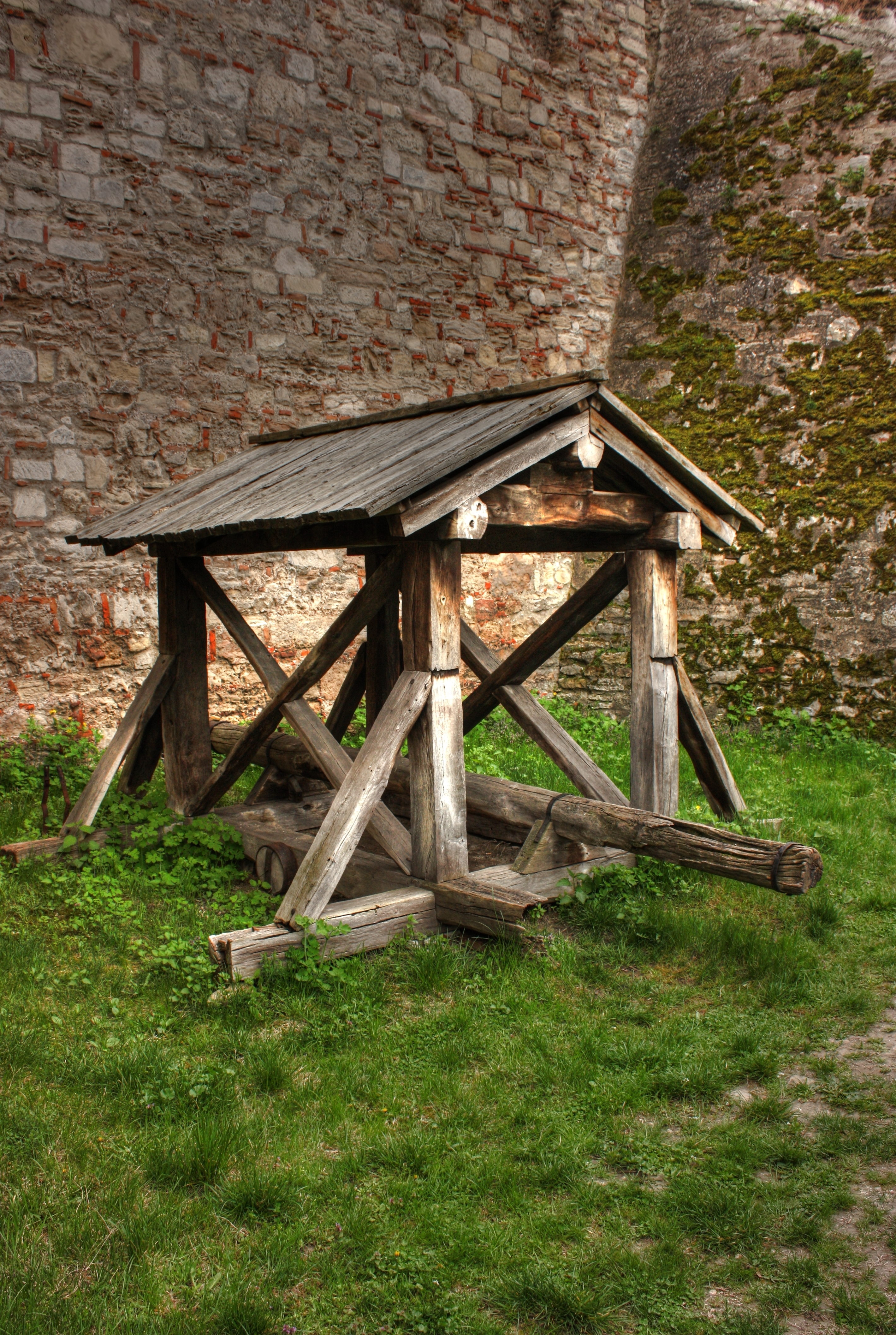 Battering ram. Baba Vida is a medieval fortress in Vidin in northwestern Bulgaria and the town's primary landmark. It consists of two fundamental walls and four towers and is said to be the only entirely preserved medieval castle in the country.